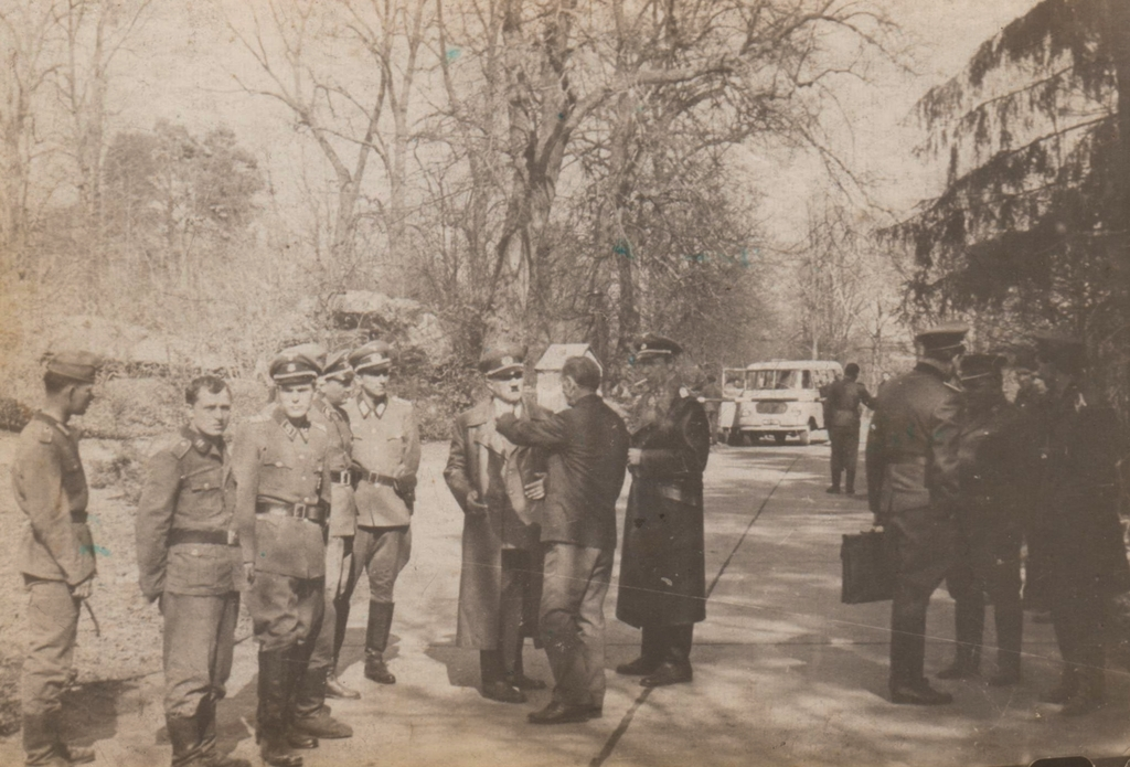 Actors on the set in Wolfschanze, Gierłoż, Poland 1968, film "Liberation" (film series), translit. Osvobozhdenie, directed by Yuri Ozerov. The series was a Soviet-Polish-East German-Italian-Yugoslav co-production. In the photo, the director's assistant talks to actor Fritz Diez (Adolf Hitler), alongside Fritz Diez, Marian Proszyk (aide, Wehrmacht officer)